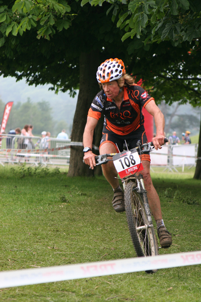 Lydia Gould competing at the British National Mountain Biking Marathon Championships 2008 at Margam Park.